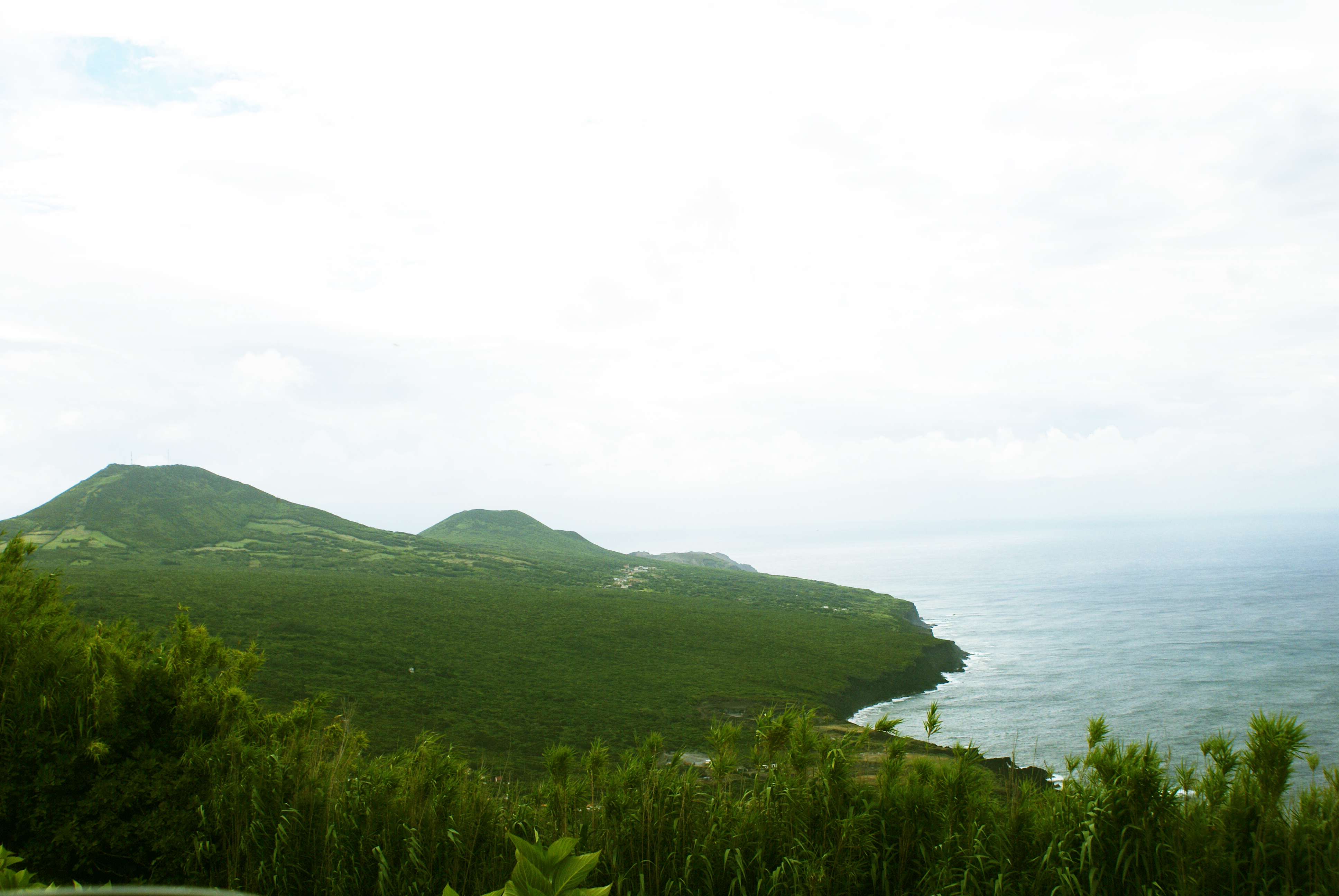 Miradouro da Ribeira das Cabras, vistas, Praia do Norte, vistas, Concelho da Horta, ilha do Faial, Açores, Portugal